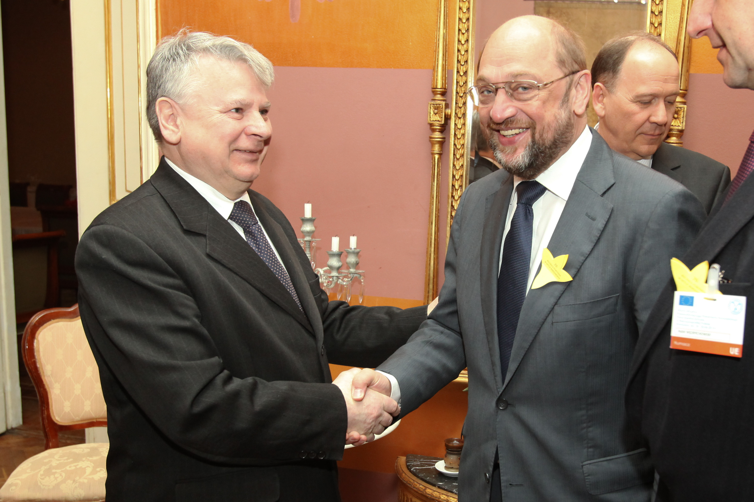 Marshal of the Polish Senate Bogdan Borusewicz and the President of the European Parliament Martin Schulz